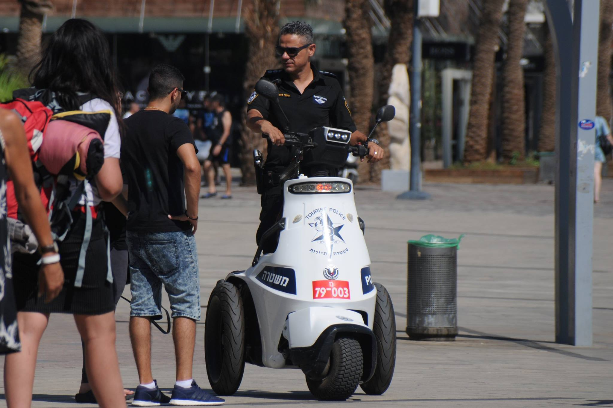 Israeli tourist police vehicle.